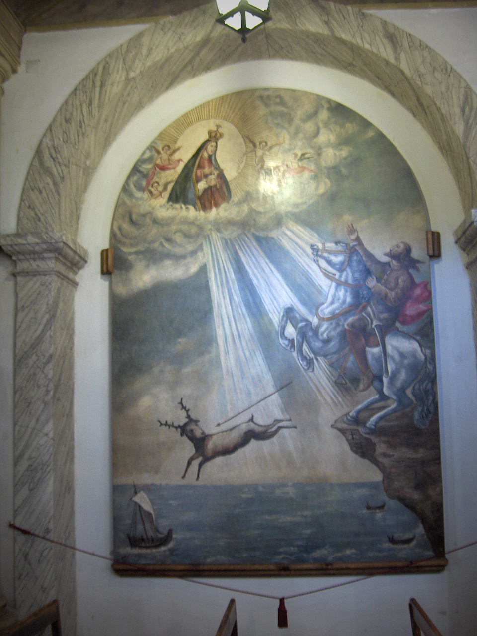 Legend of the saving of Dom Fuas Roupinho by the Nossa Senhora da Nazaré; Church of Nossa Senhora da Nazaré in Nazaré, Portugal